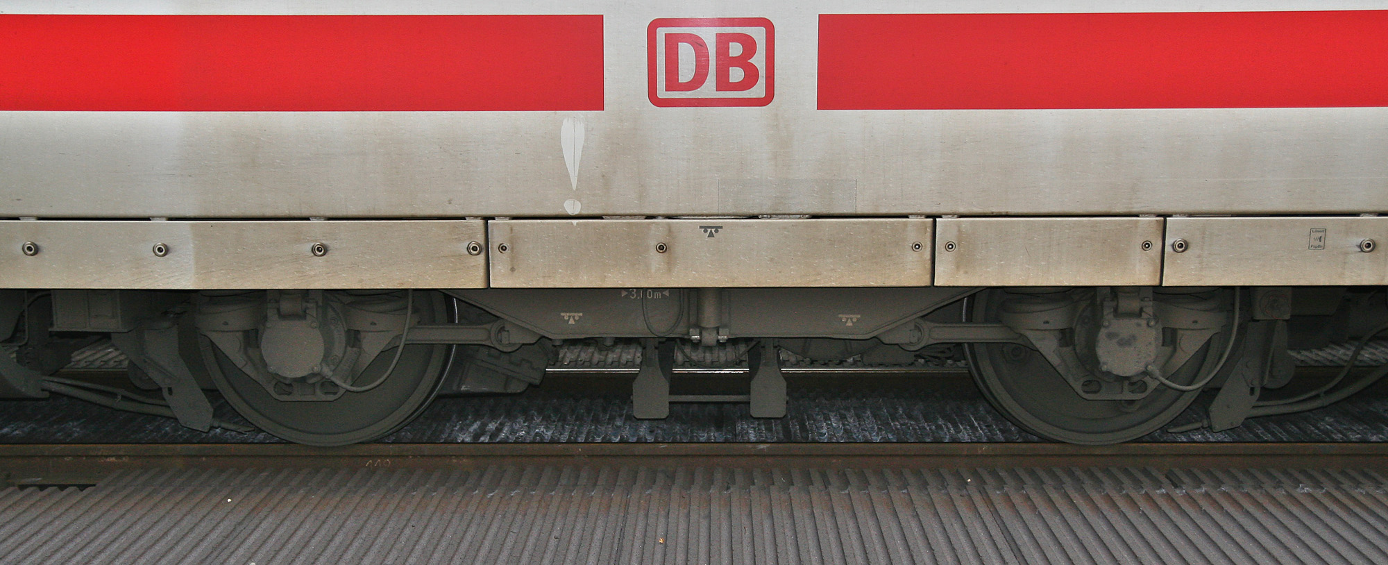 Bogie of an ICE 1 high-speed train